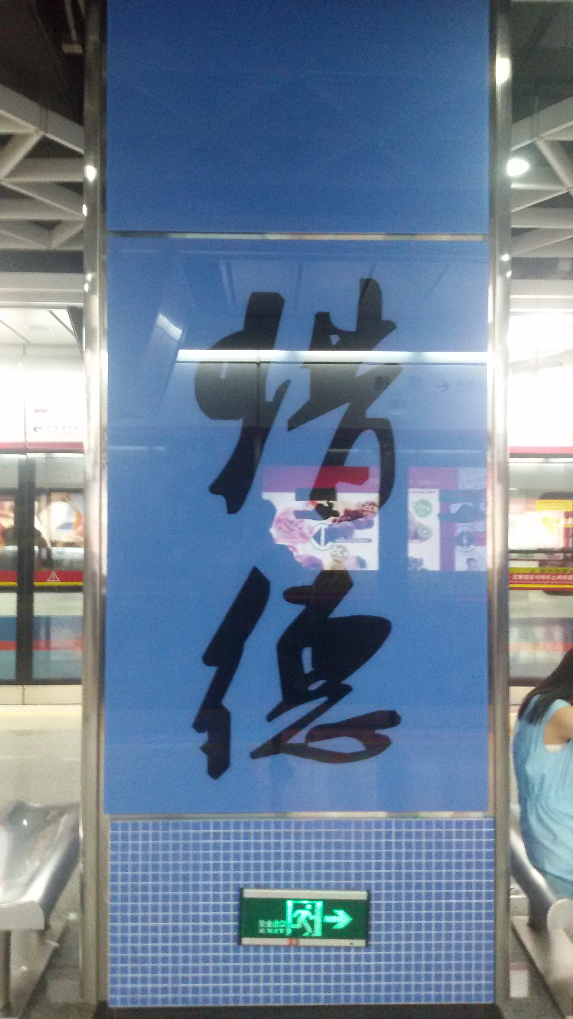 WORD on PILLAR for Liede Station, Guangzhou Metro. 粵語: 廣州地鐵獵德站嘅柱上邊啲字